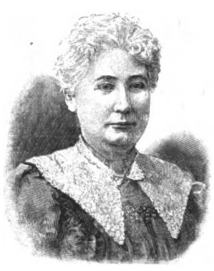 no caption